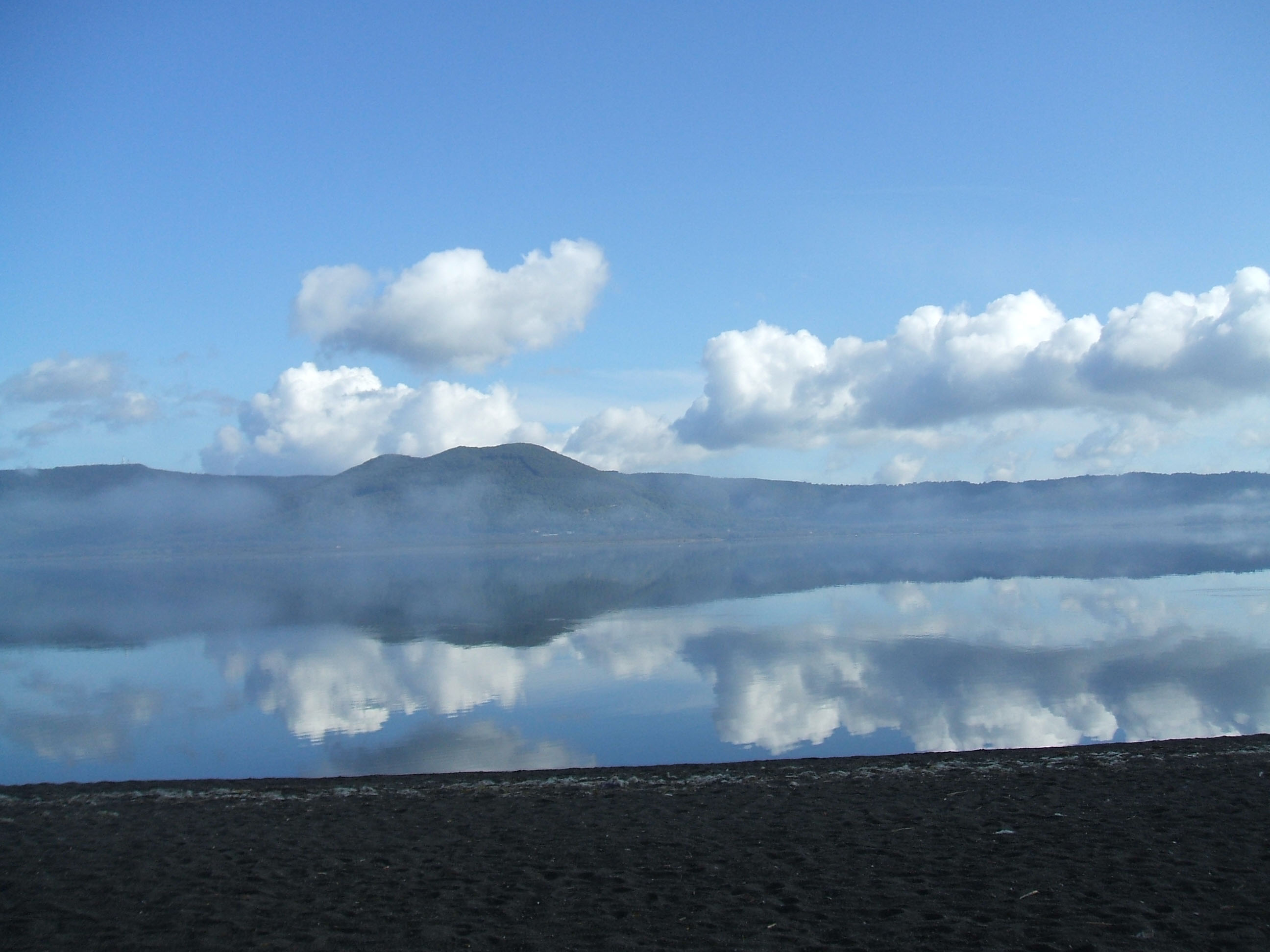 october 2008